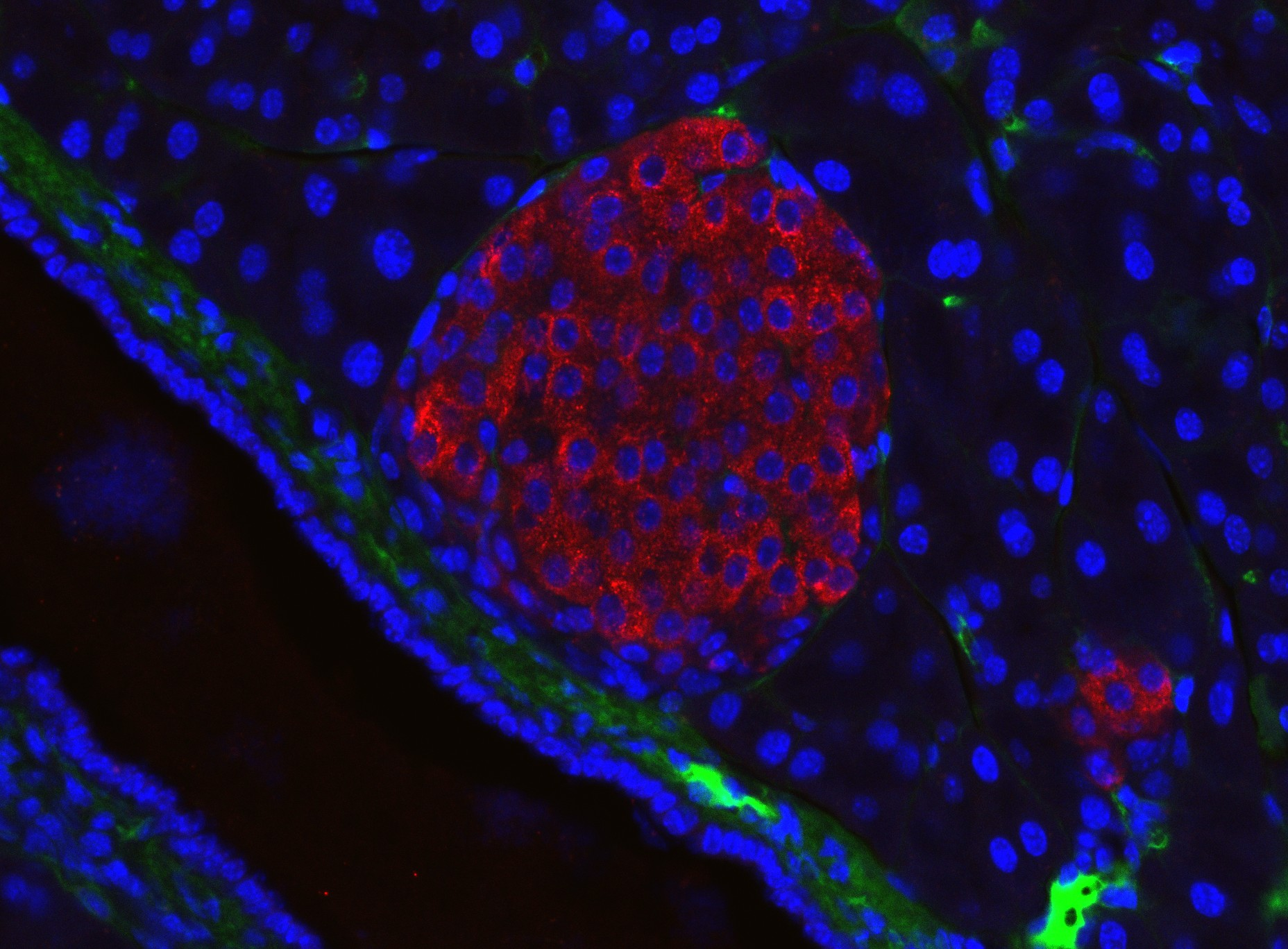 Visualised using immunofluorescent microscopy. Colours: red = insulin antibody, blue = DAPI = nuclei, green unspecific anti-mouse secondary antibody (stains mostly intercellular matrix) Dimension: real width 326µm Generated in the Solimena lab, Paul Langerhans Institute Dresden